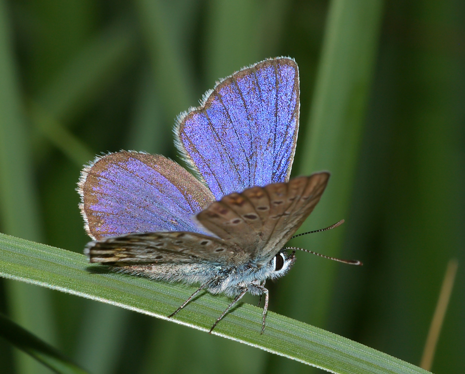 Male specimen of the butterfly Silver-studded Blue, Plebejus argus. The perspective allows a view to both sides of the wings, which is important for the species' determination. The animal's habitat is a sandy, heathy ground.